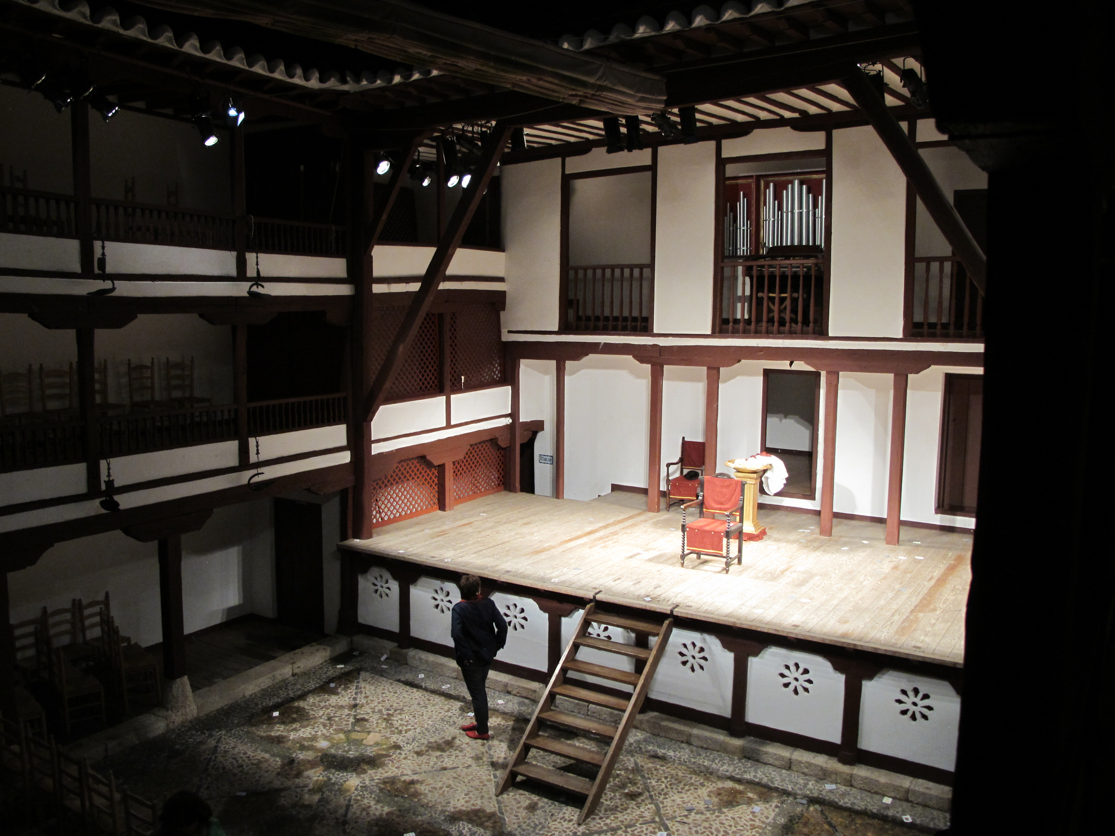 Old theatre of Almagro, Ciudad Real, Spain.